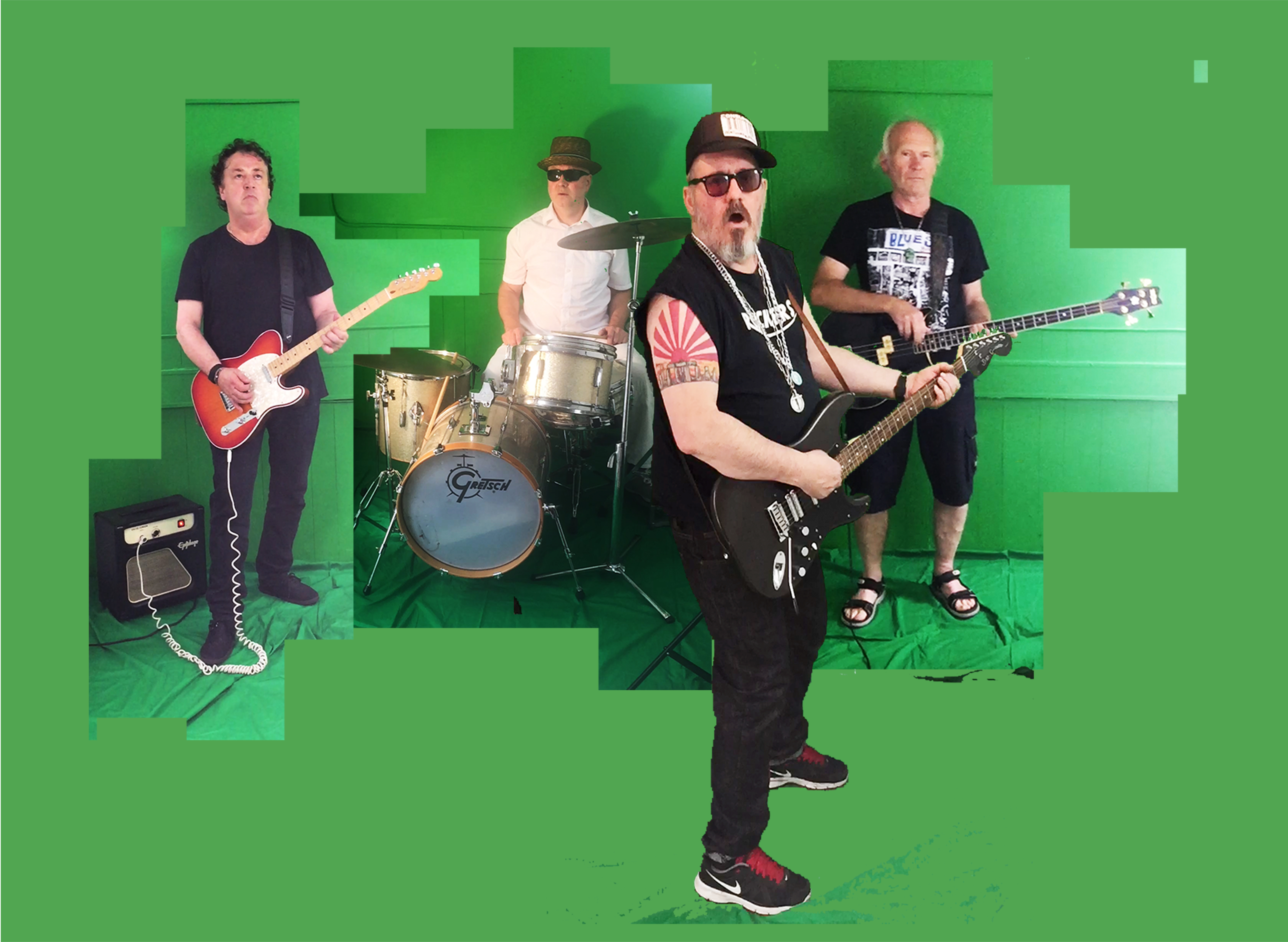 a Collage